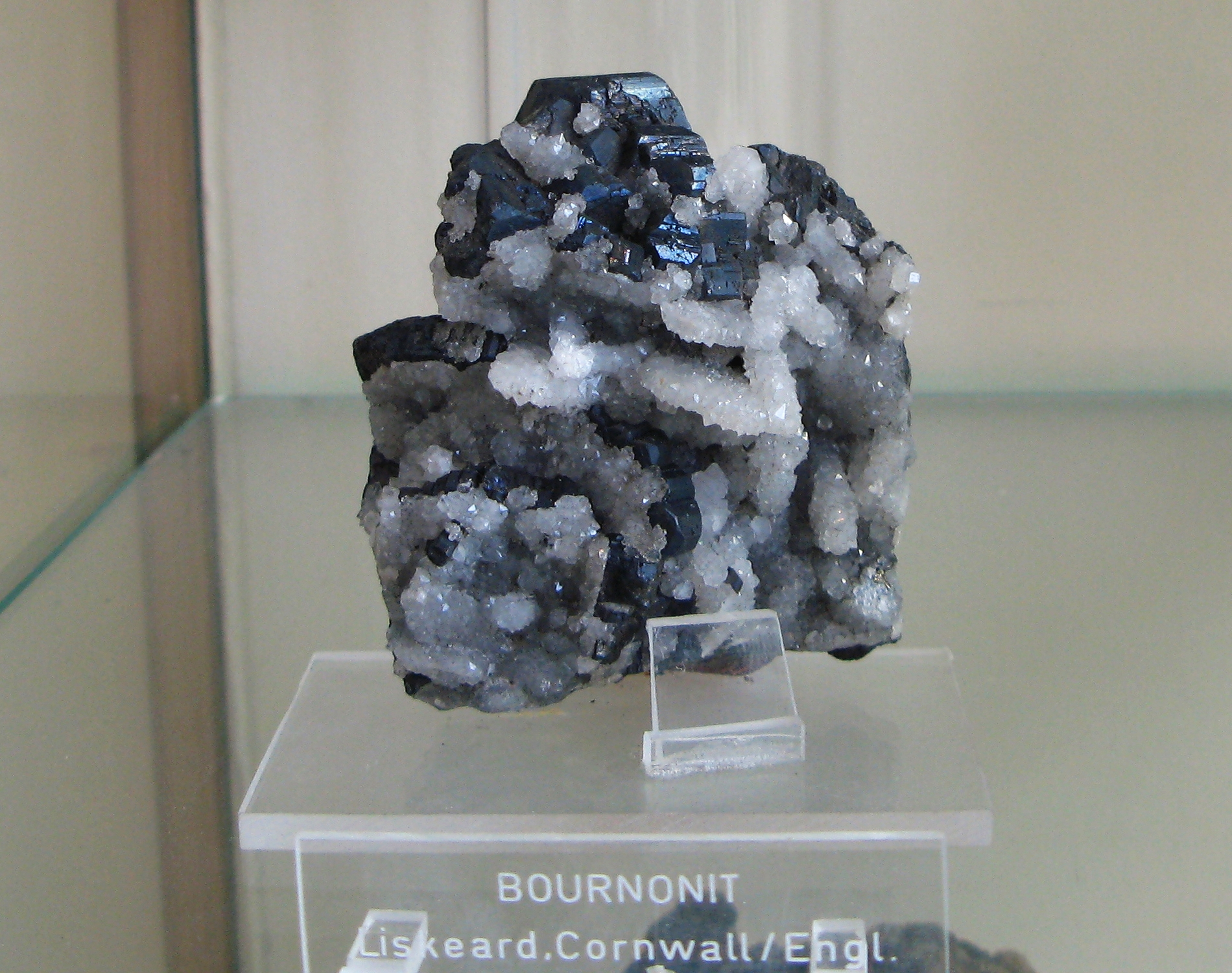 Bournonite - Locality: Liskeard, Cornwall, England - Exposed in the Mineralogical Museum, Bonn, Germany